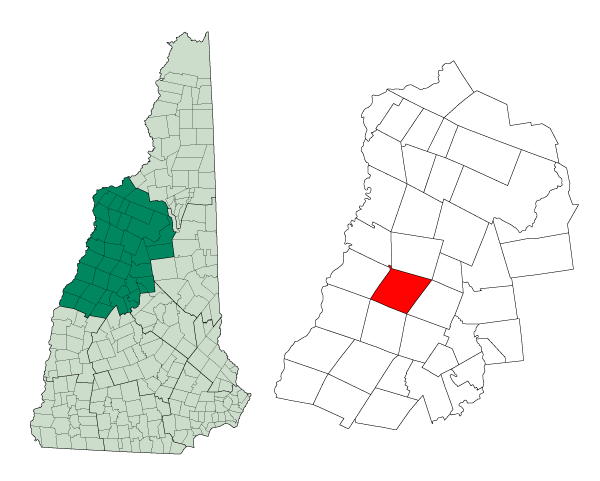 Map of a municipality in Belknap County, New Hampshire